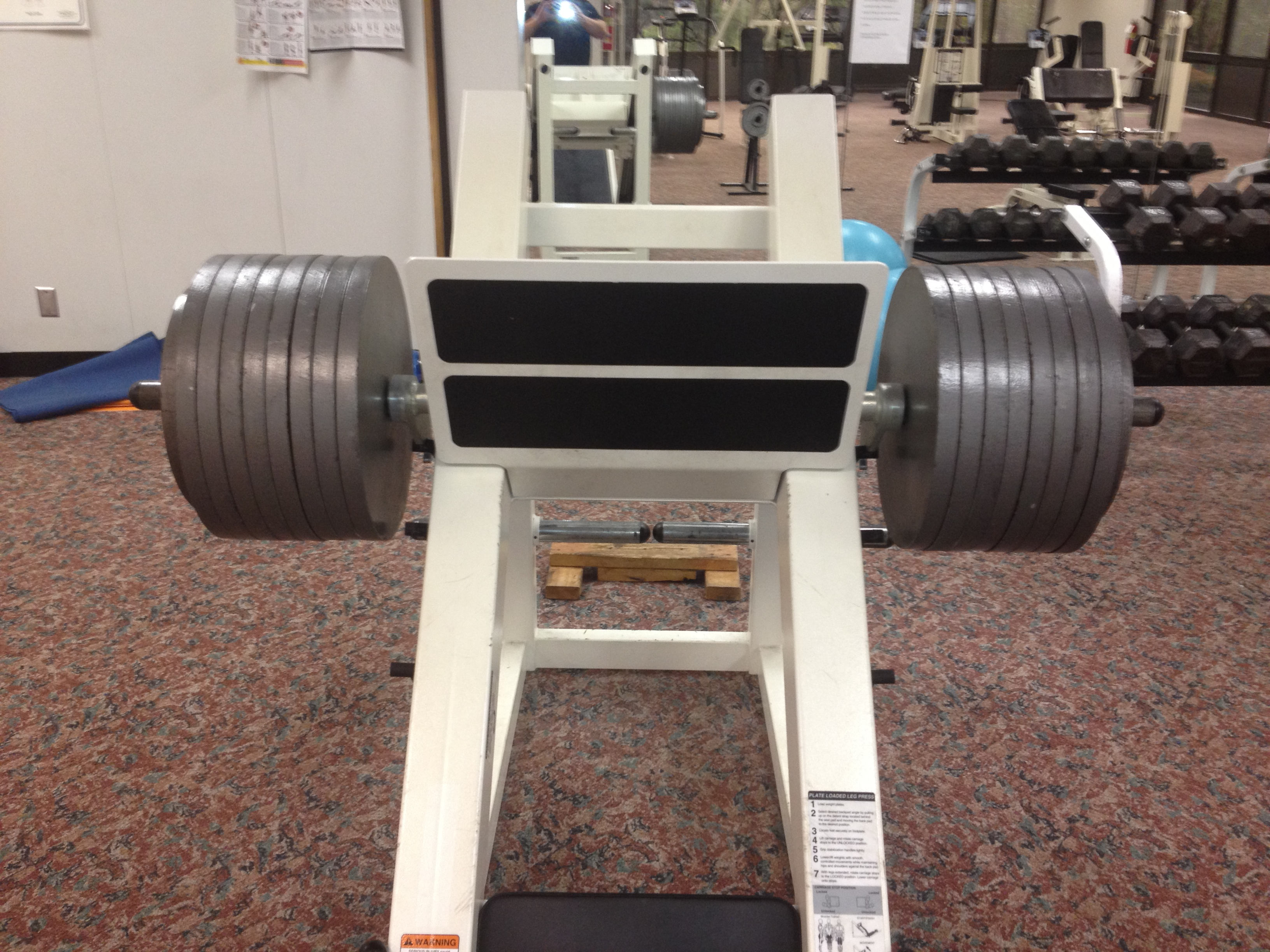 A loaded leg press machine, used for strength exercises of the lower body.